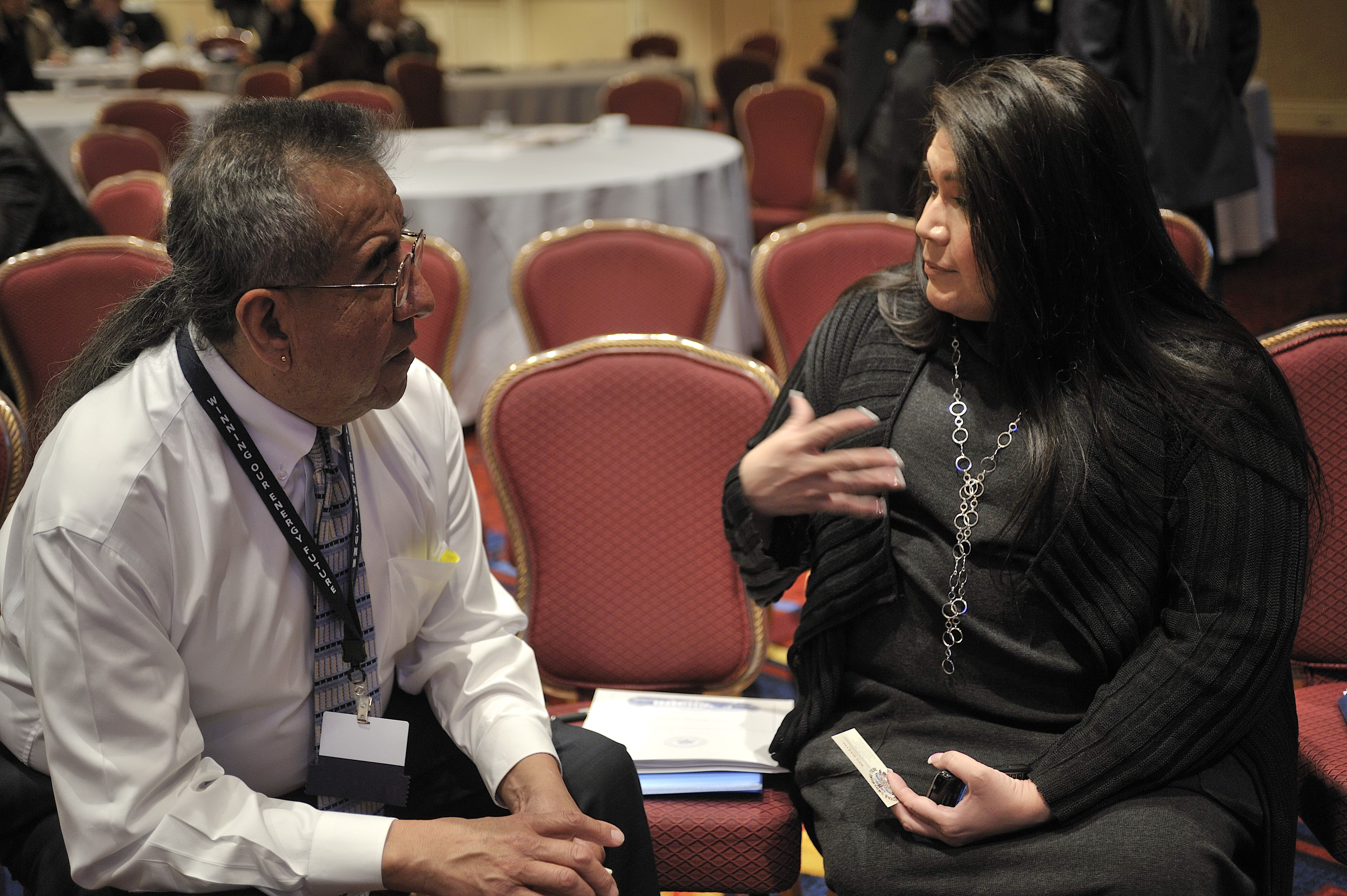 White House Domestic Policy Council Special Advisor on Native American Affairs, Ms. Kimberly Teehee discusses issues with Wes Martel, Co-Chairman Eastern Shoshone Tribe